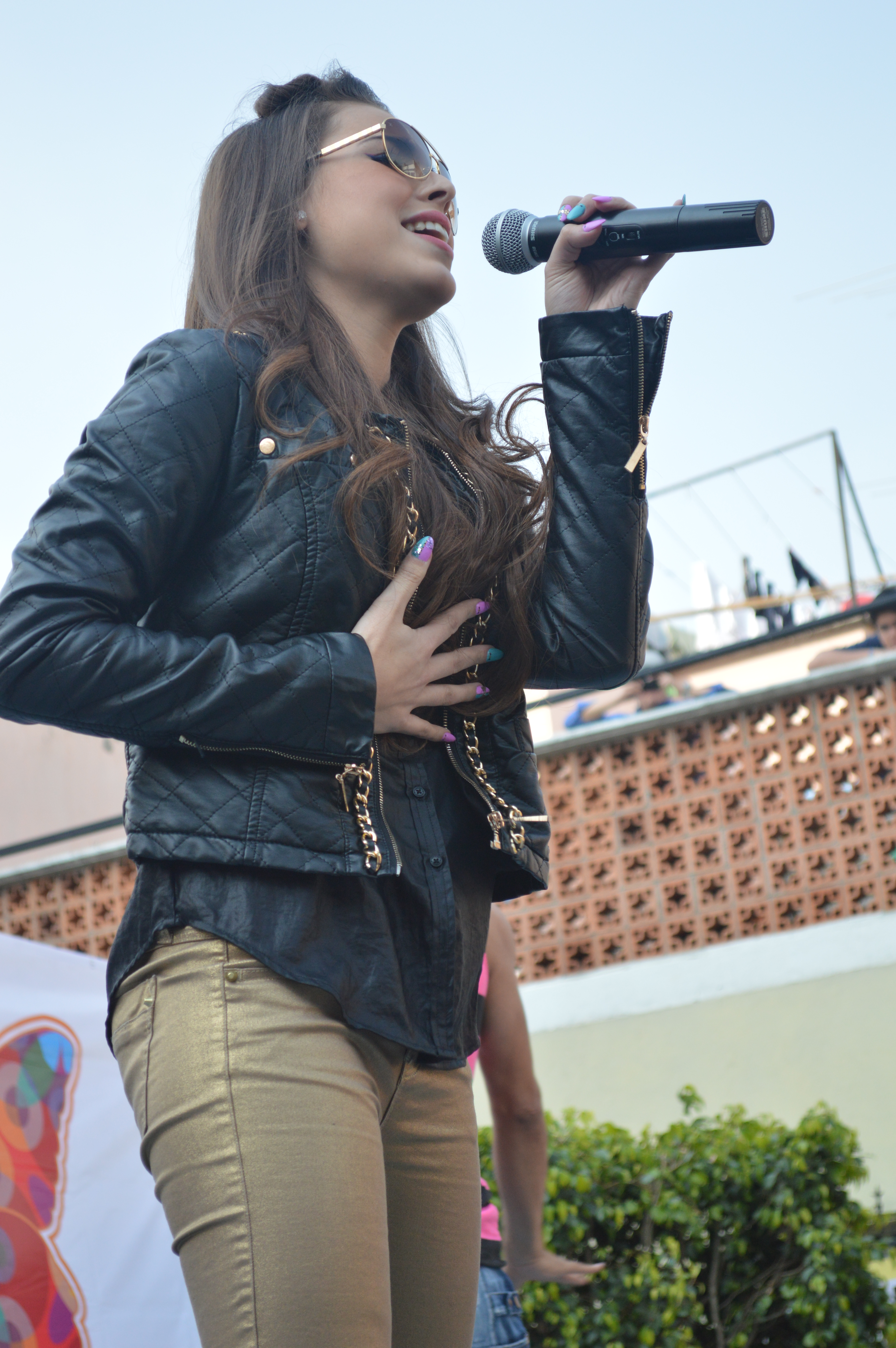 Danna Paola appearing at a community event in Colonia Obrera in Mexico City sponsored by the Fundación Expresa